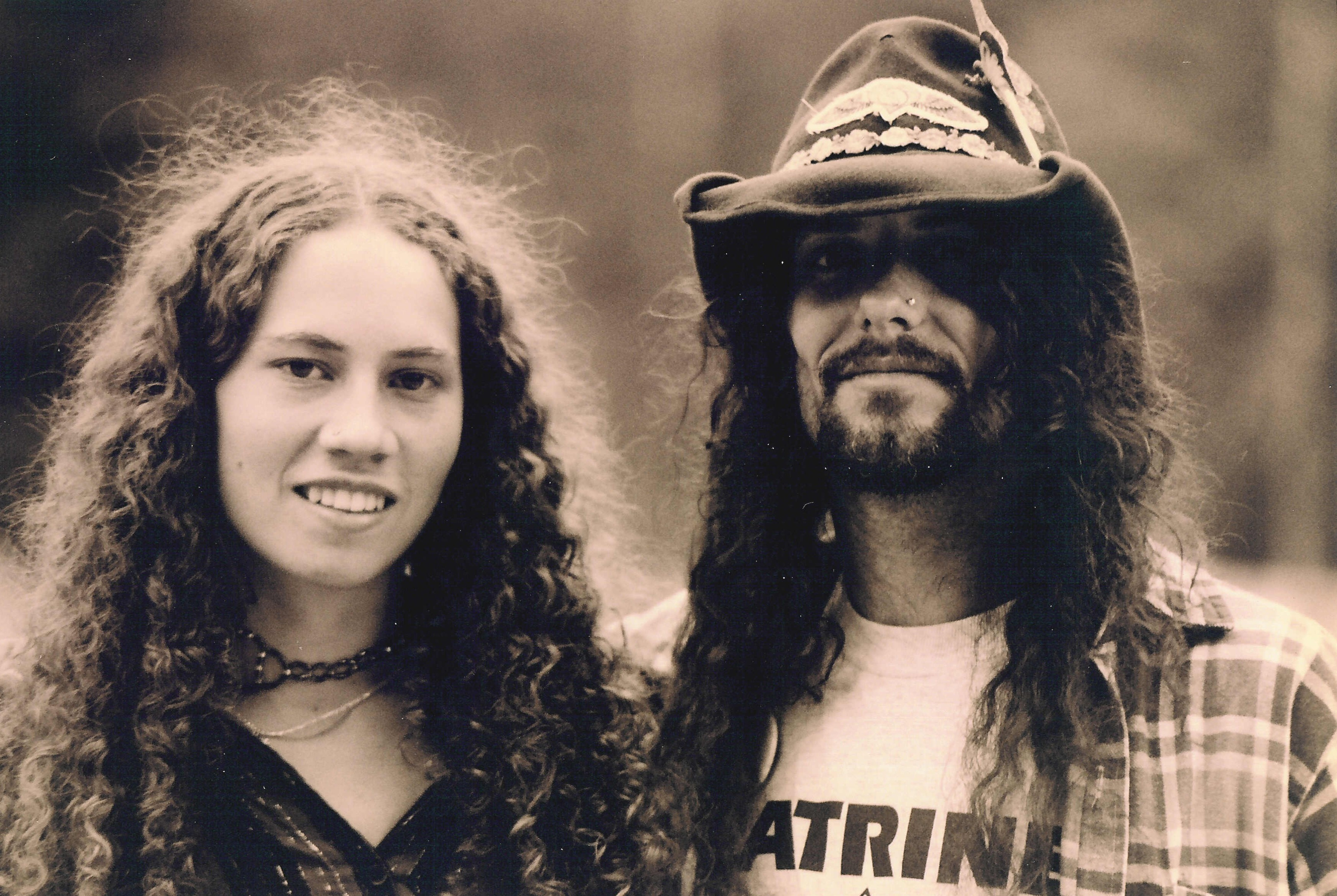 "Cornflake" and Vivian McPeak, Snoqualmie Moondance festival.